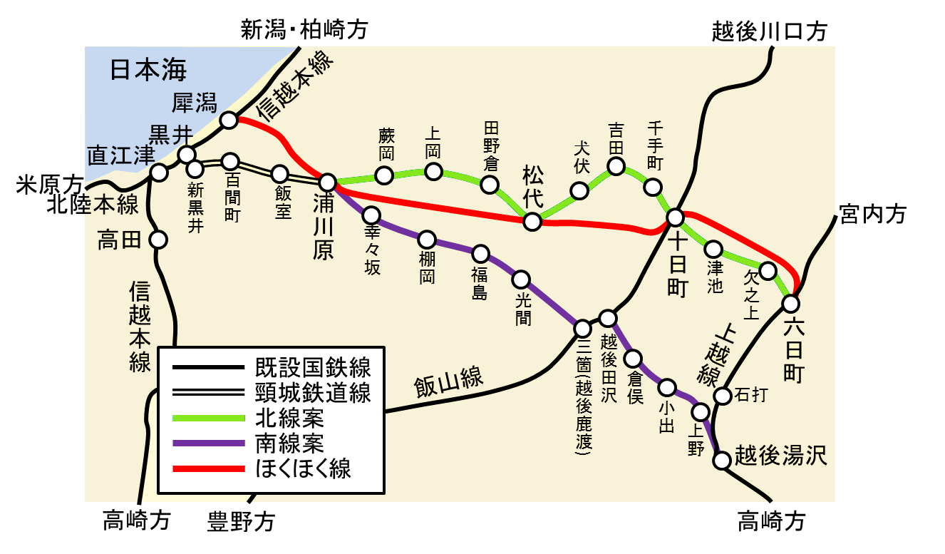 Route plan of Hokuetsu Express Hokuhoku line, between north route and south route.